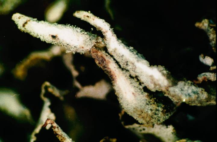 Cladonia coniocraea (Flörke) Spreng., 1827 (photograph of a herbarium specimen taken through a dissecting microscope (x20) showing powderhorn-shaped podetia covered with granular soredia) Growing at the base of a lightly shaded tree, 2.2 miles W from the University of Michigan Biological Station, Cheboygan County, Michigan, USA; collected and identified by Richard E. Riefner (No. 81-209, 23 Jun 1981); specimen is now in the Lichen Herbarium of the New York Botanical Garden.